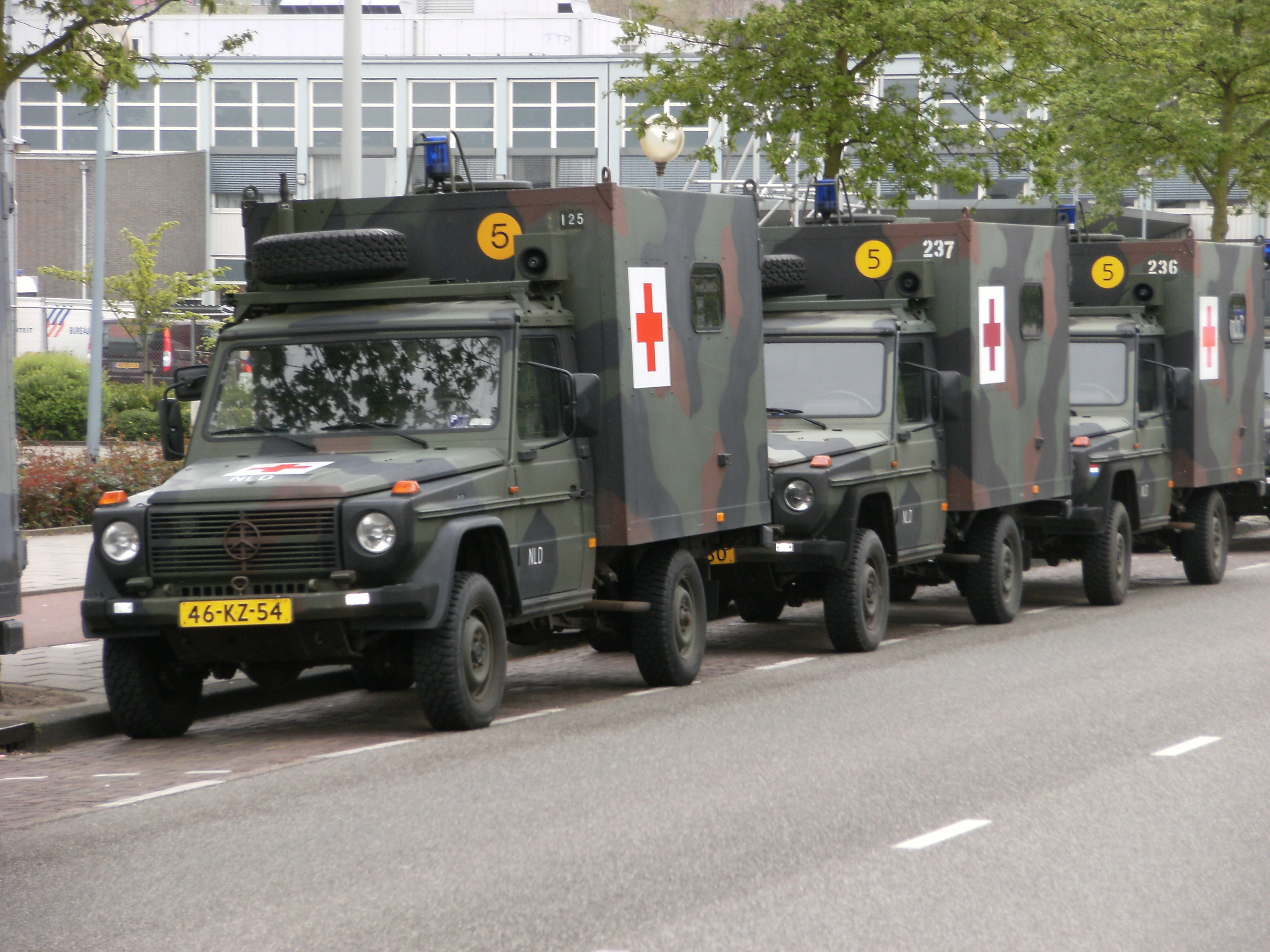 Red Cros vehicles in Slotervaart, Aletta Jacobslaan